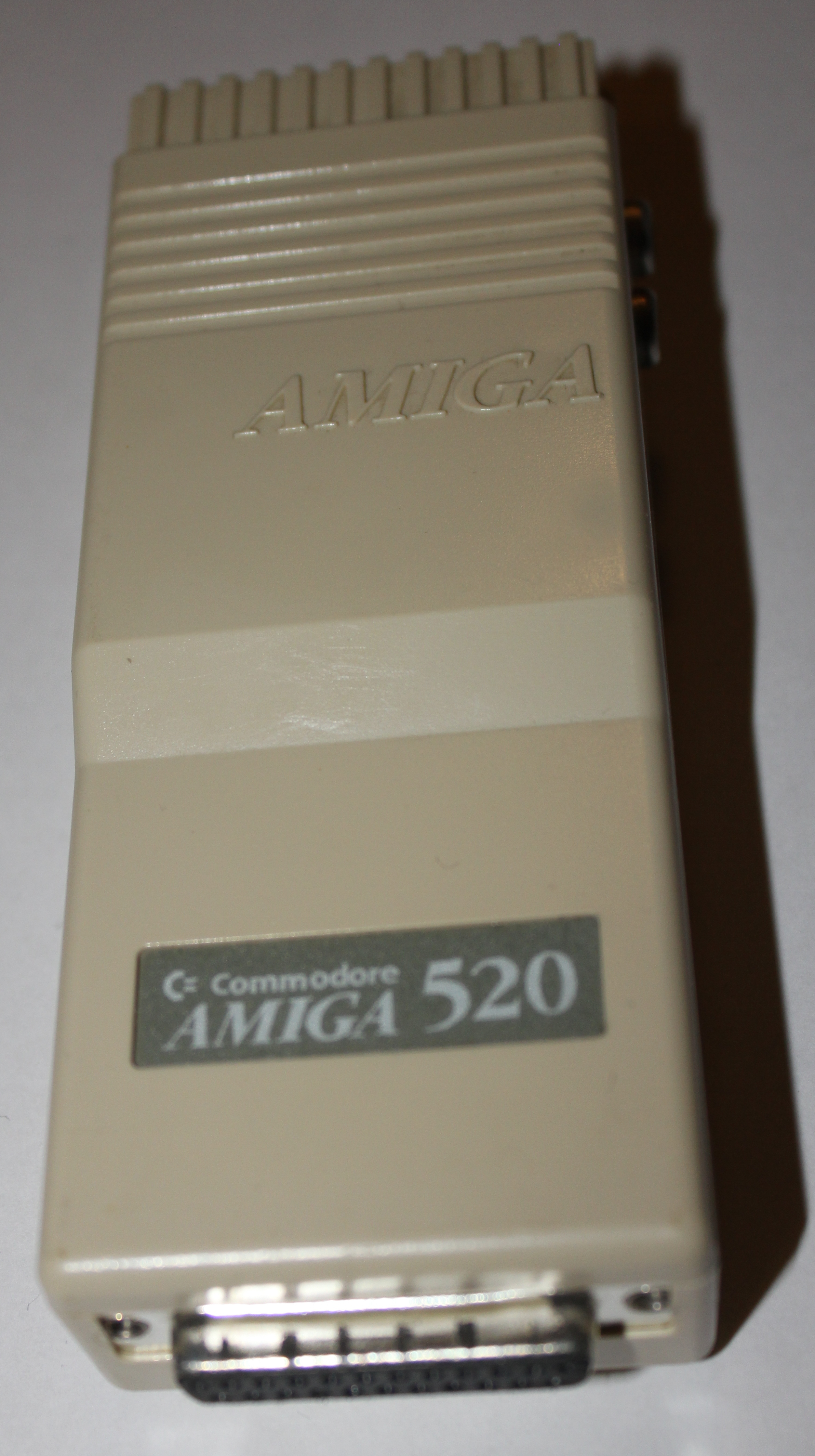 A photo of the Amiga 520 RF output adapter for the Amiga 500.